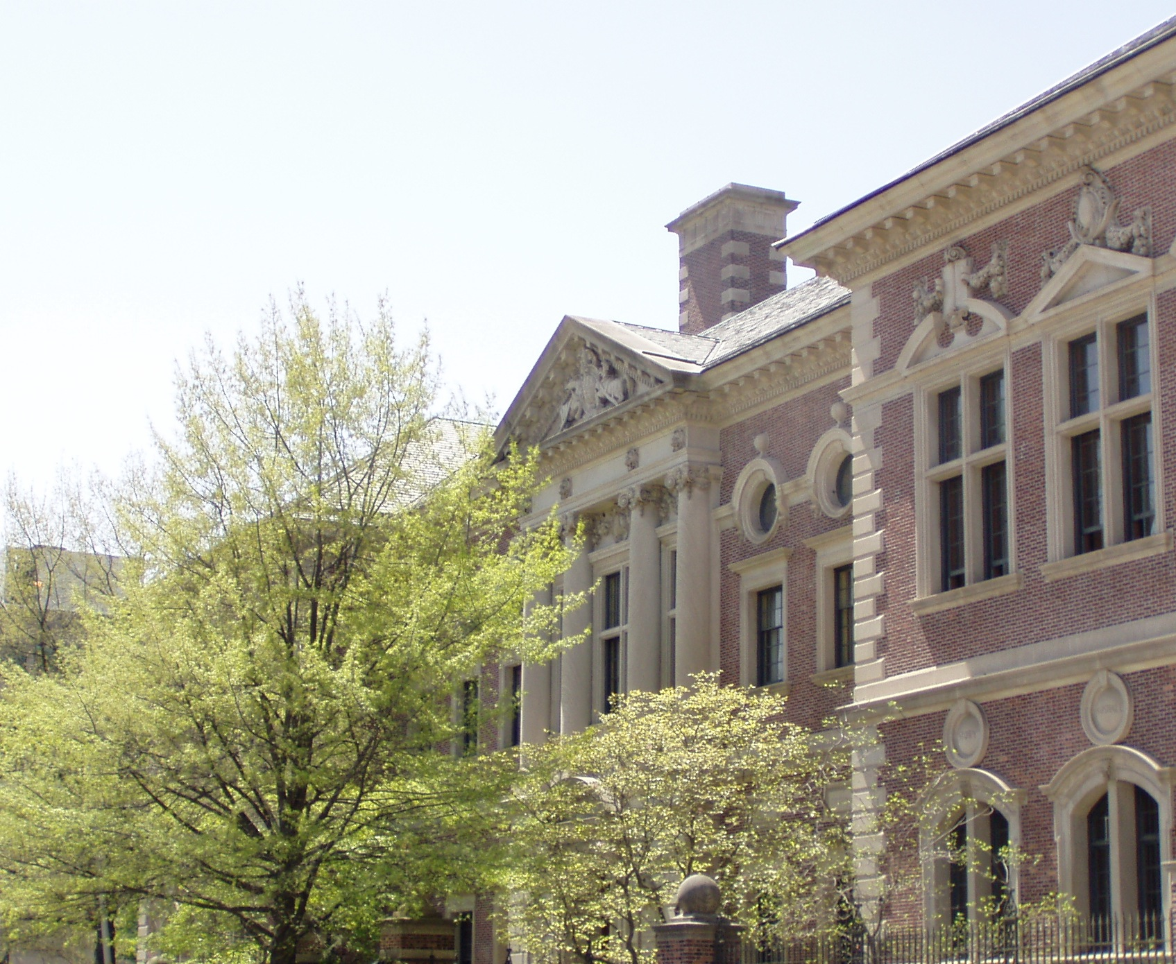 Taken in Philadelphia, Pennsylvania, in April 2006. Eastern facade of the University of Pennsylvania Law School.